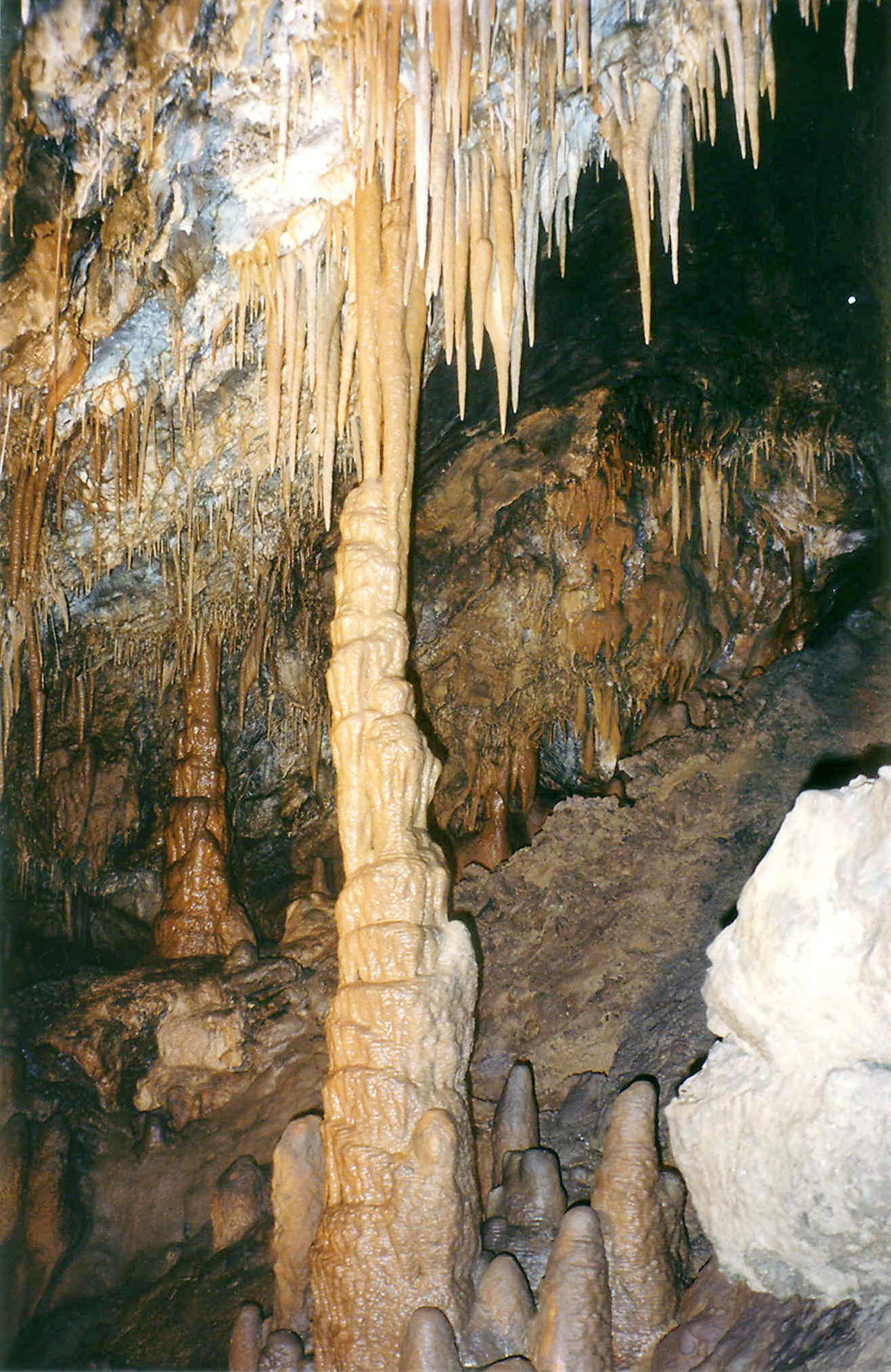 Rotovnik cave, Slovenia (near Šoštanj)